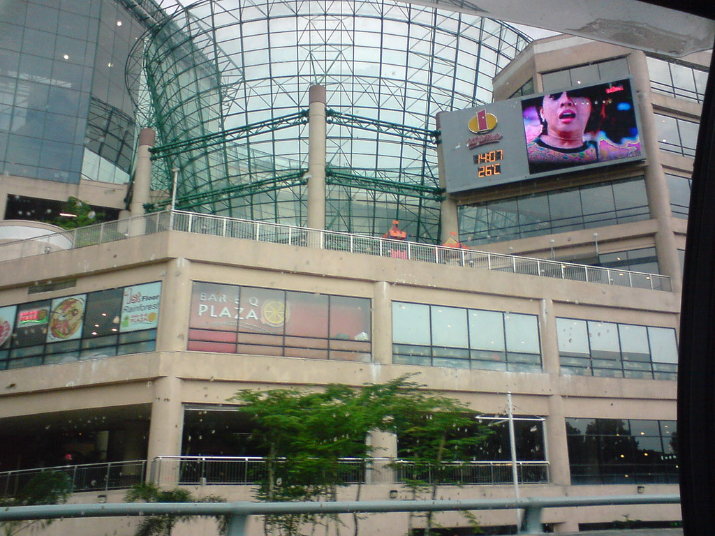 Photo taken by me while passing 1 Utama.